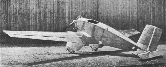 Albatros L.59 sports aircraft